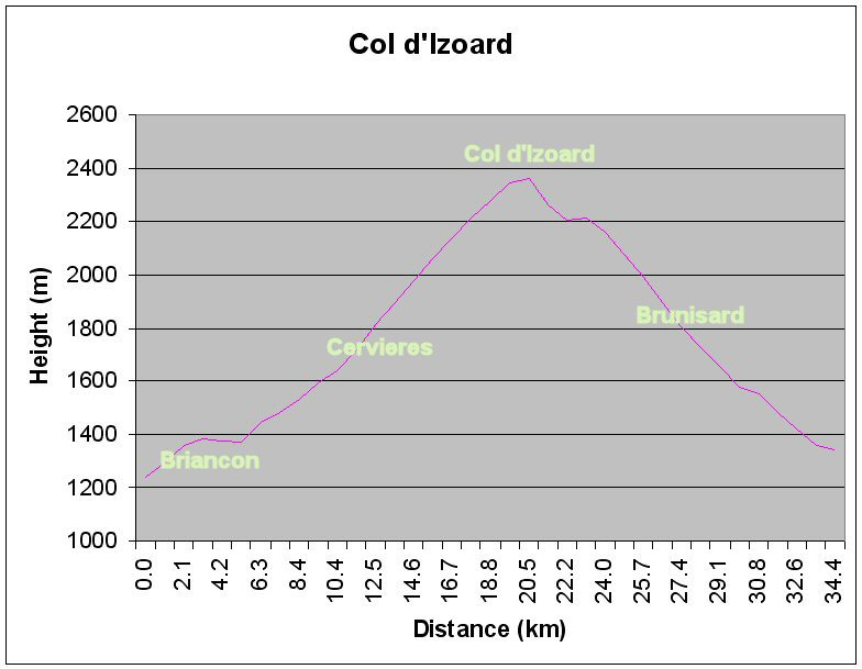 Col d'Izoard - Altimetry of the climb. C. Hoyle Summary C. Hoyle